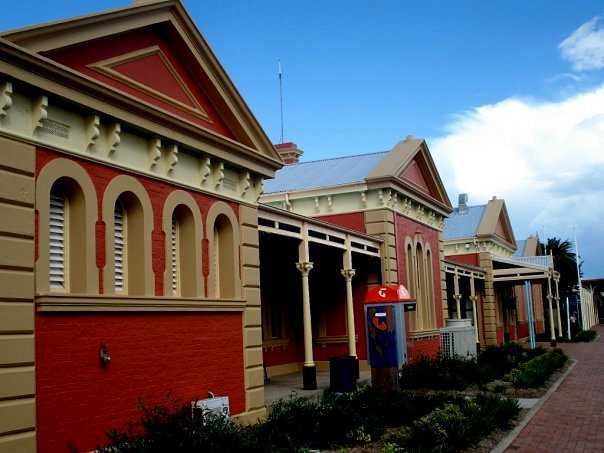 Front of Tamworth Train Station